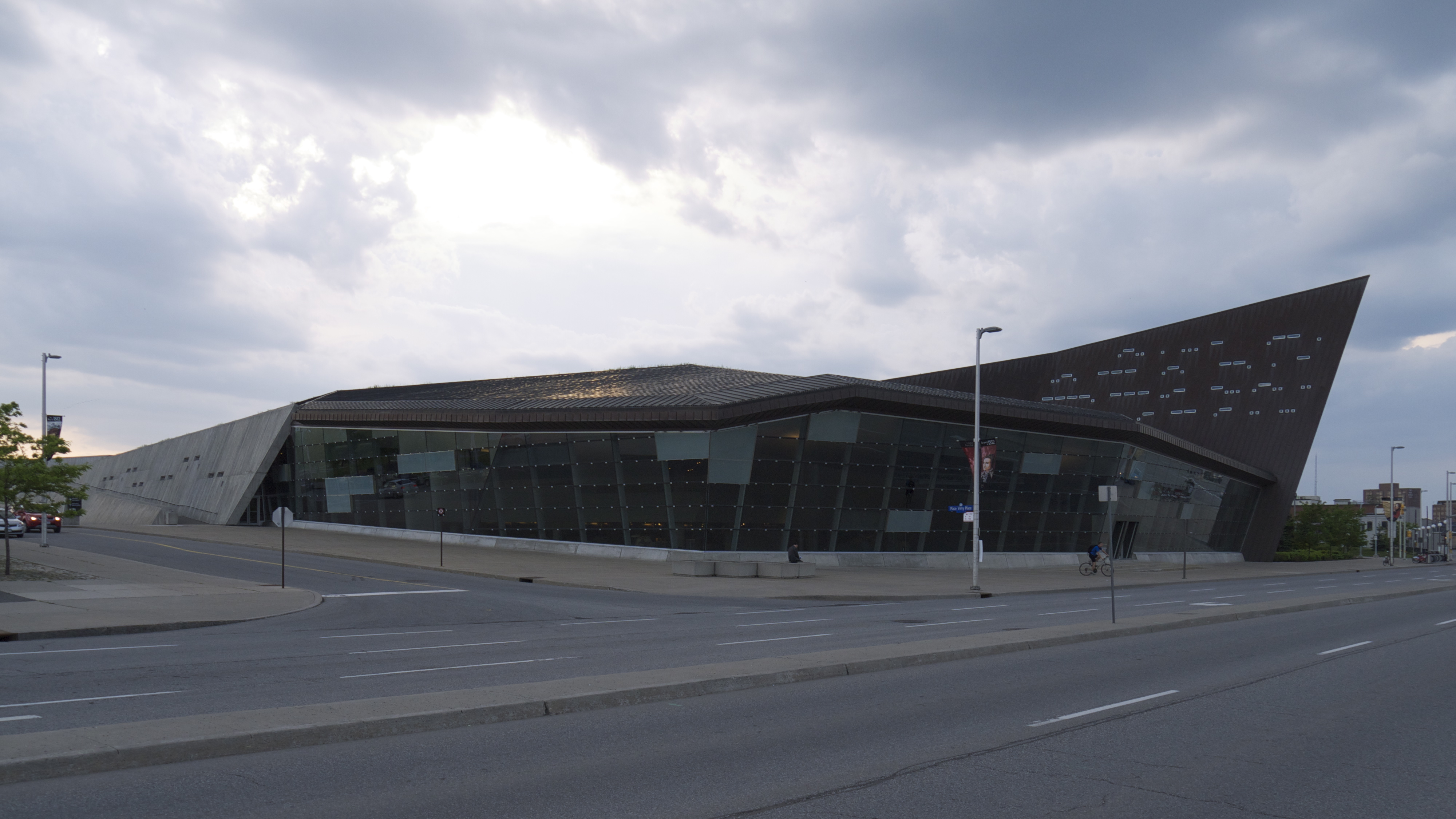 Canadian War Museum building in Ottawa.